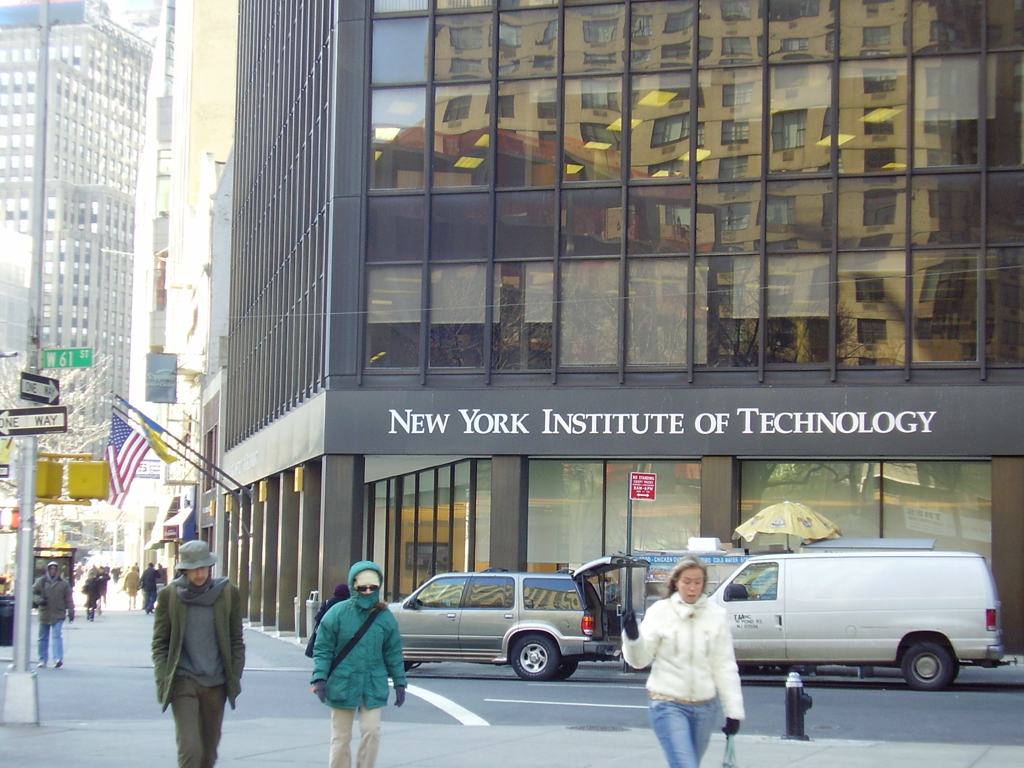 NYIT campus in Manhattan, NYC, NY. See also File:NYIT61jeh.JPG.